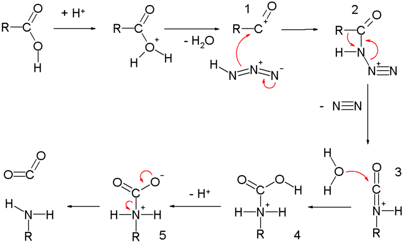 Schmidt reaction mechanism amine